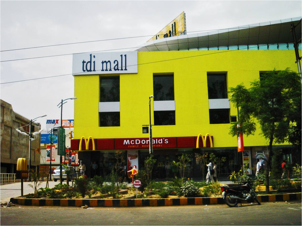 A shopping mall situated on the Fatehabad Road in Agra, U.P.